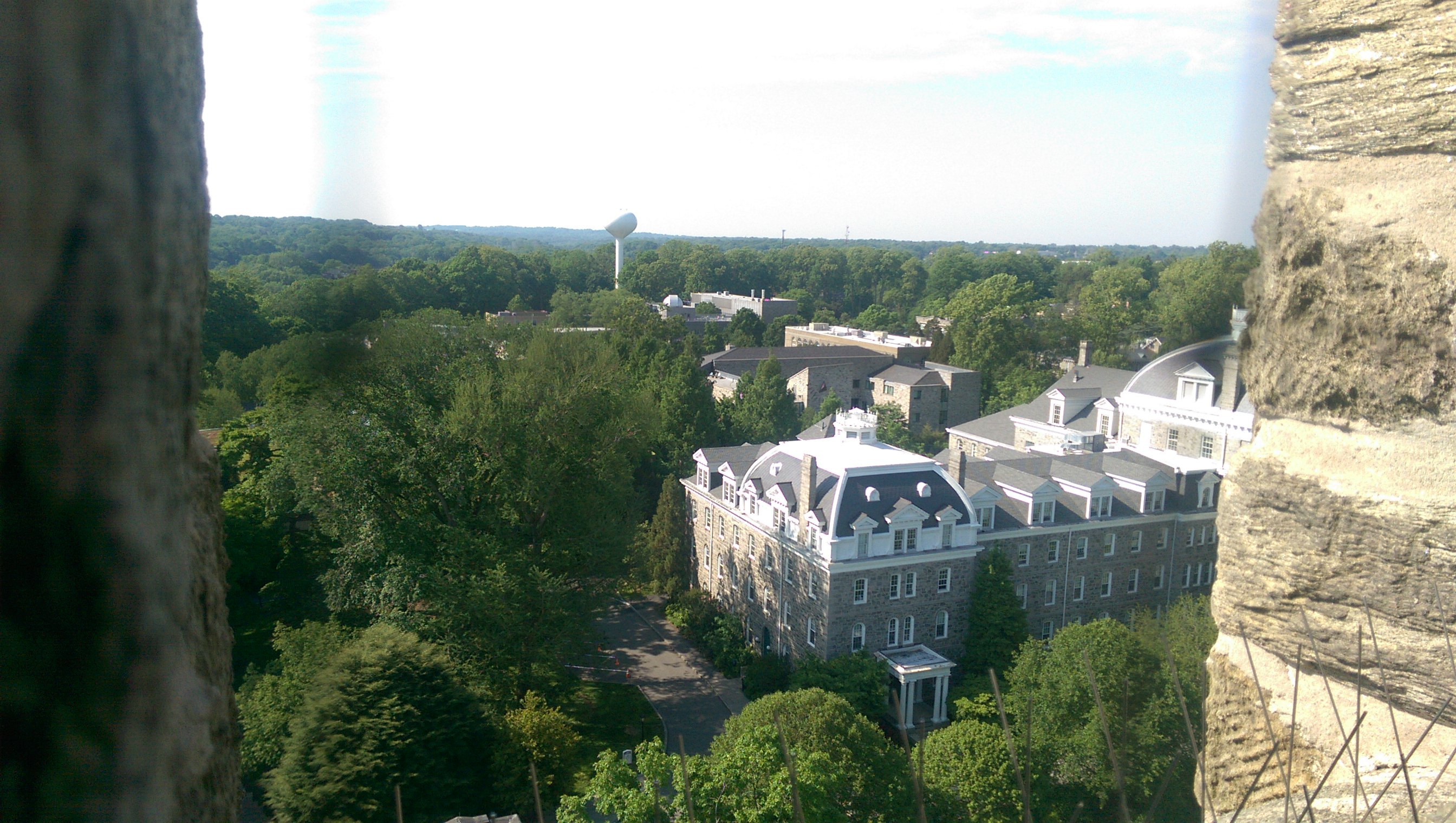 A view from the top of Swarthmore College's Clothier Bell Tower.